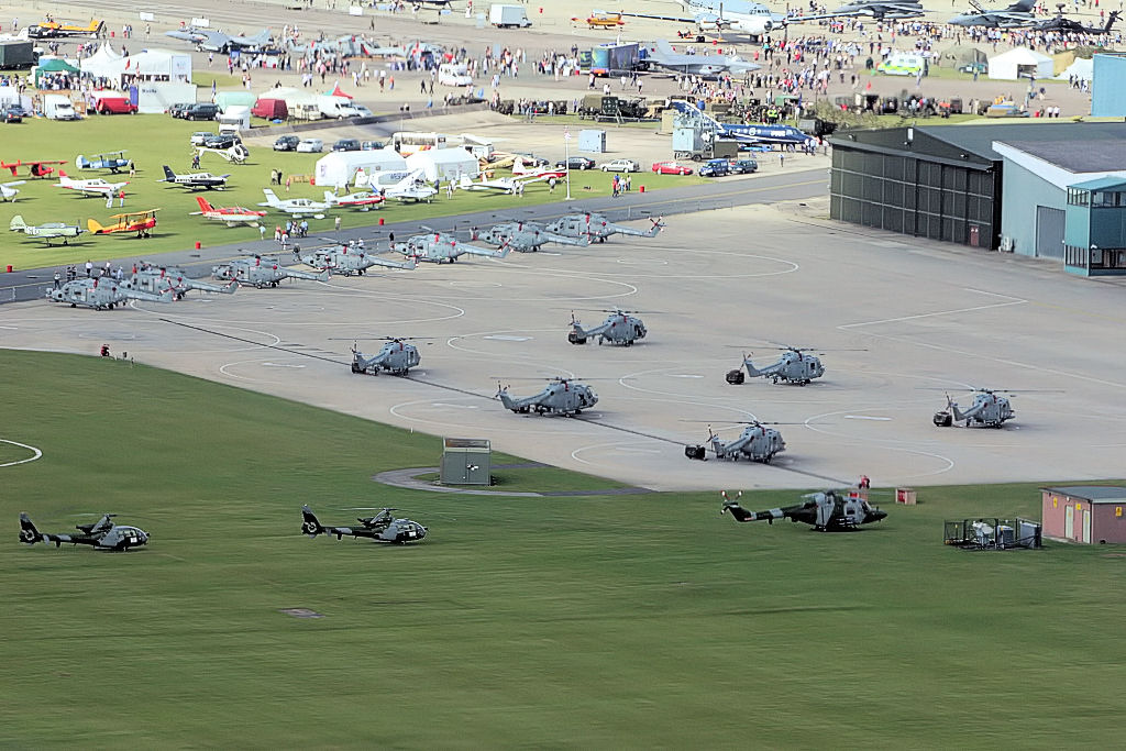 Taken during a helicopter pleasure flight during the RNAS Yeovilton Airshow in 2006.